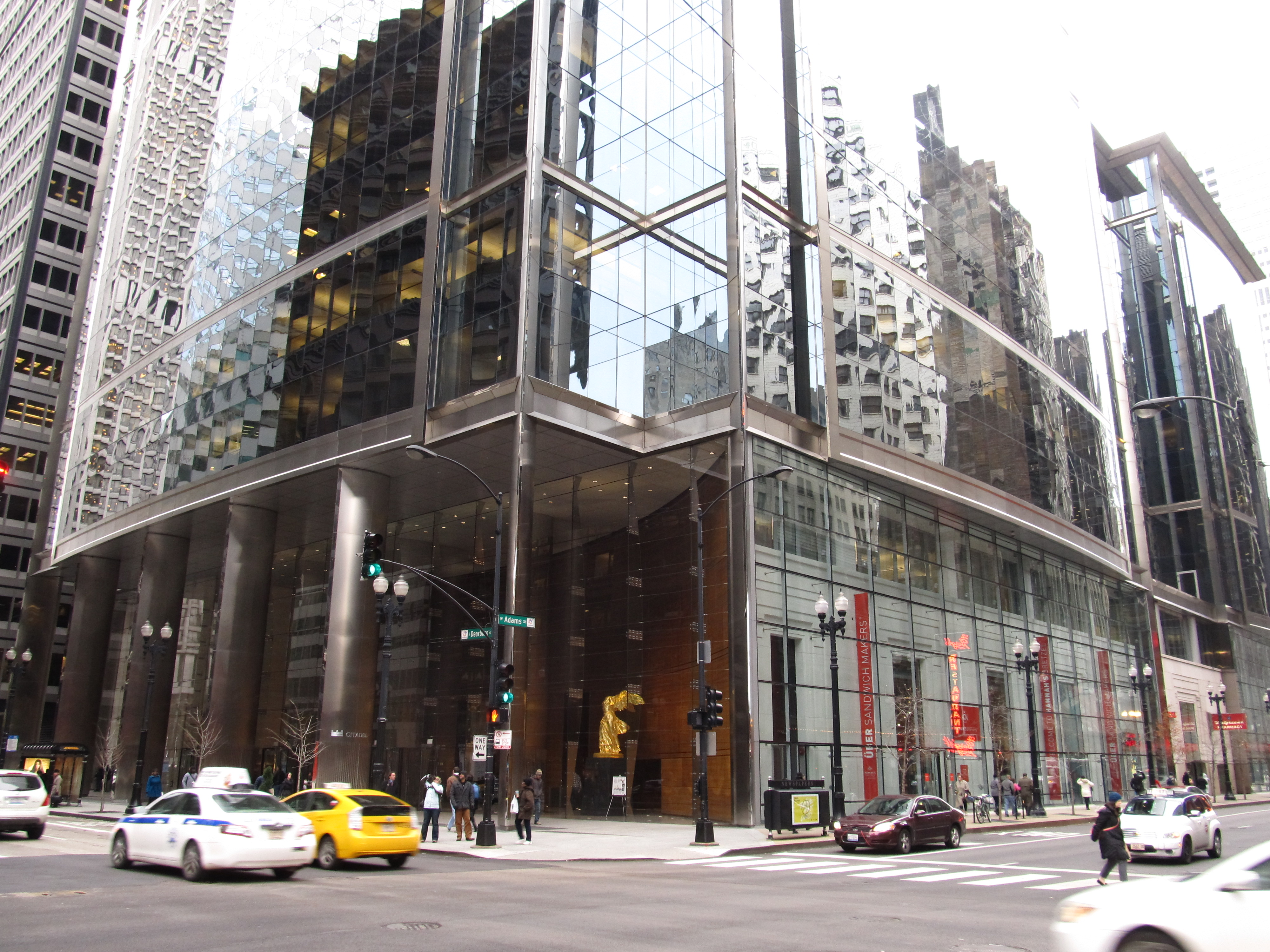 Citadel Center is a 580ft (177m) tall skyscraper in Chicago, Illinois, designed by Spanish architect Ricardo Bofill. The 44th tallest building in Chicago was completed in 2003 and has 39 floors. A limited-edition cast of the Winged Victory of Samothrace, one of the world's most famous sculptures, is the showpiece of the main lobby. It was the first building in Chicago to use a raised-floor pressurized plenum system. This allowed for air to be pumped in through the floors for individuals to control their climates using floor diffusers.